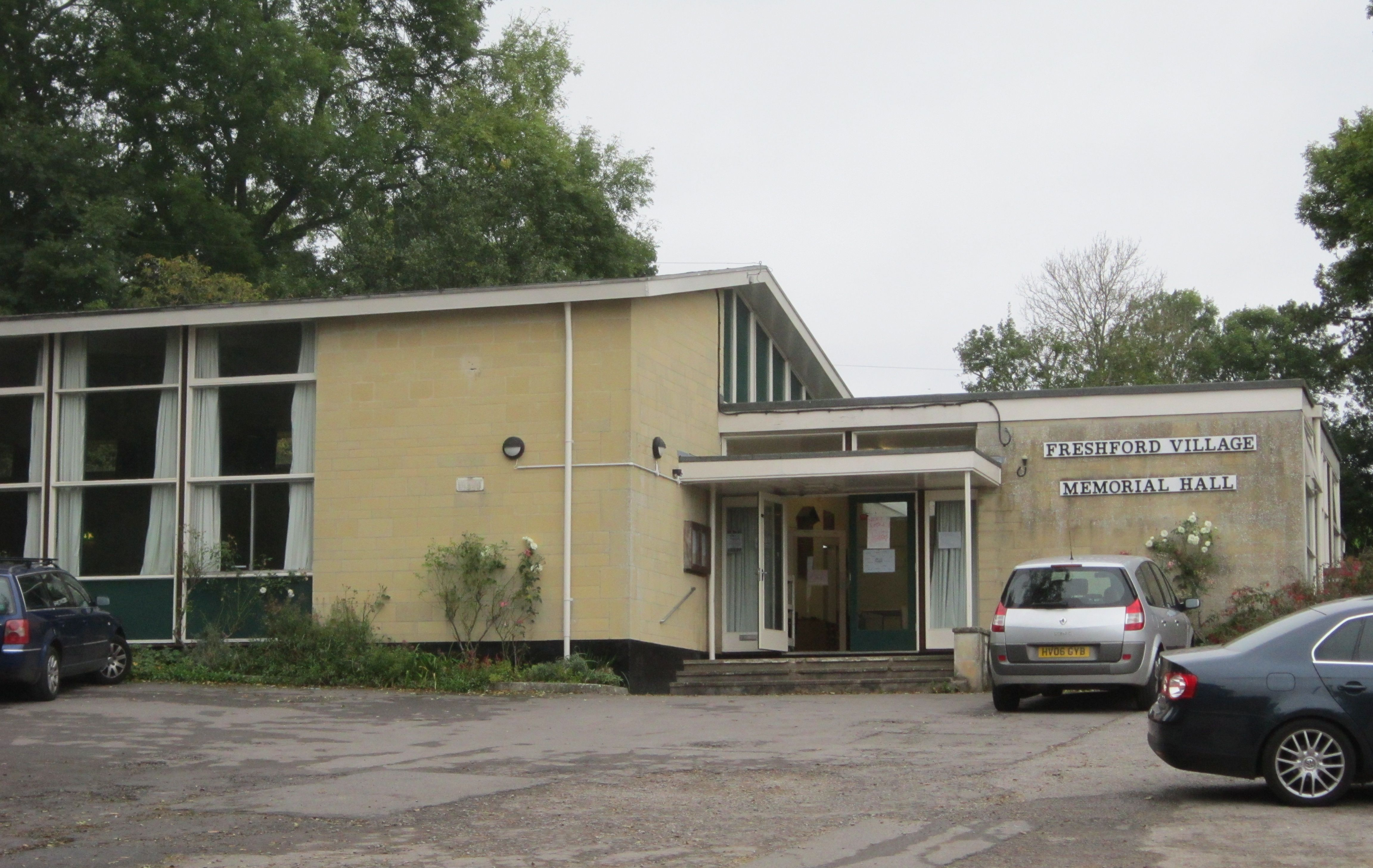 closer-up than File:Freshford village hall.jpg